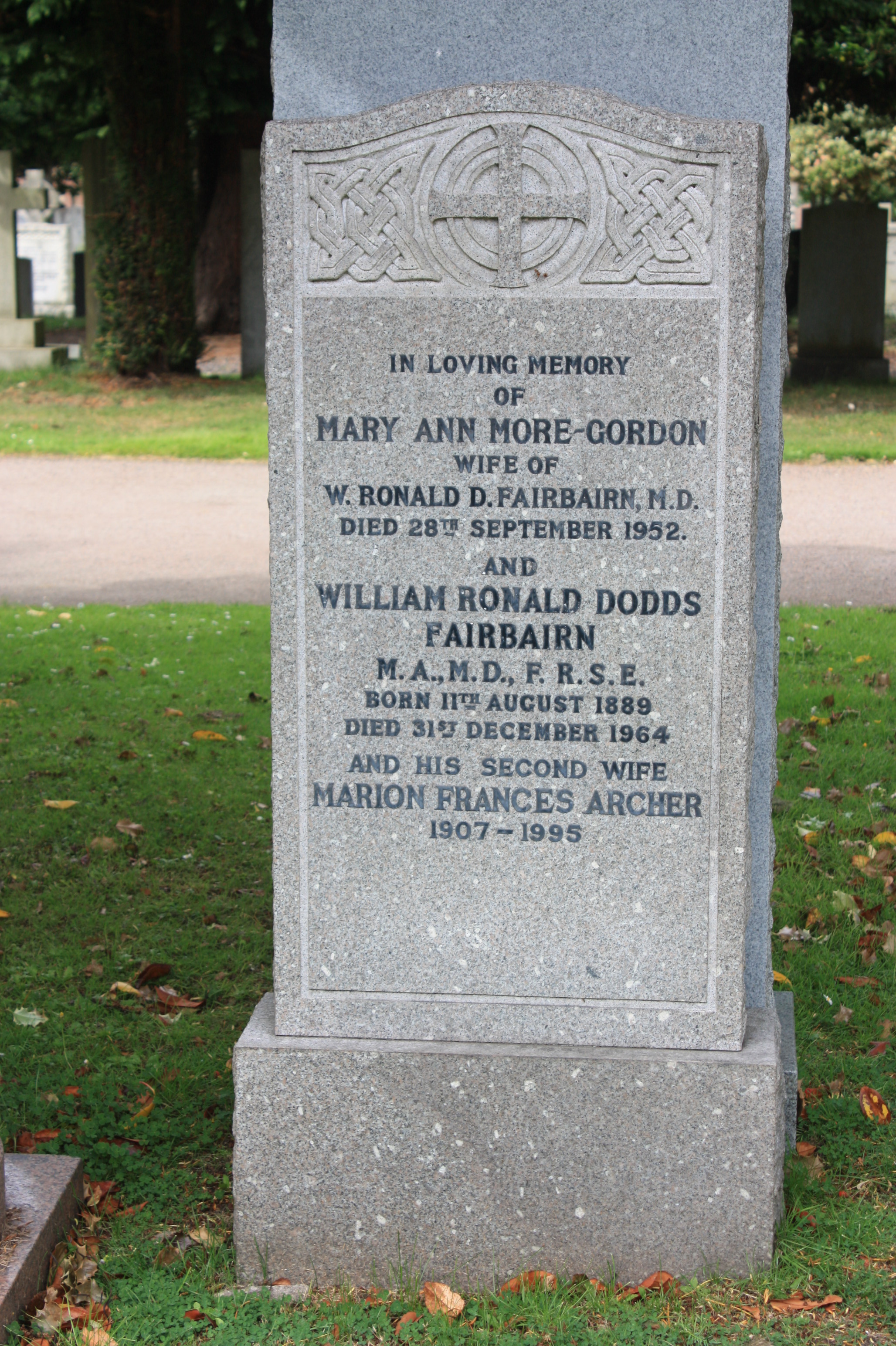 Ronald Fairbairn's grave, Dean Cemetery, Edinburgh